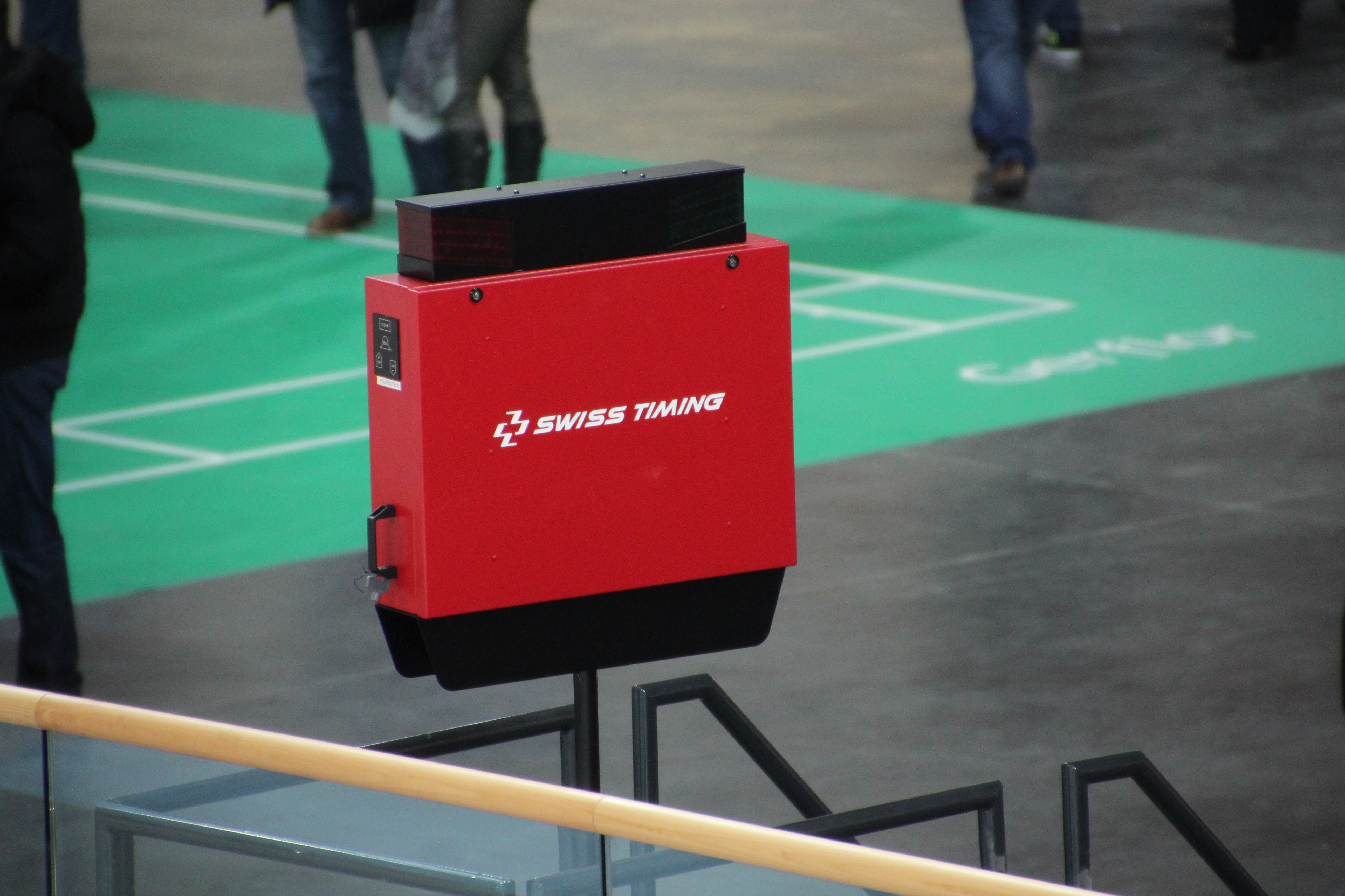 Open house on February 1, 2014 at the velodrome of Montigny-le-Bretonneux, (Saint-Quentin-en-Yvelines) France.